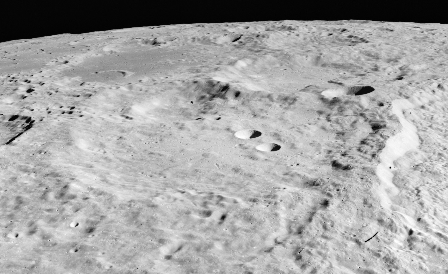 Oblique view of Barnard, on the moon, facing south. The dark-floored crater in the background is Abel.